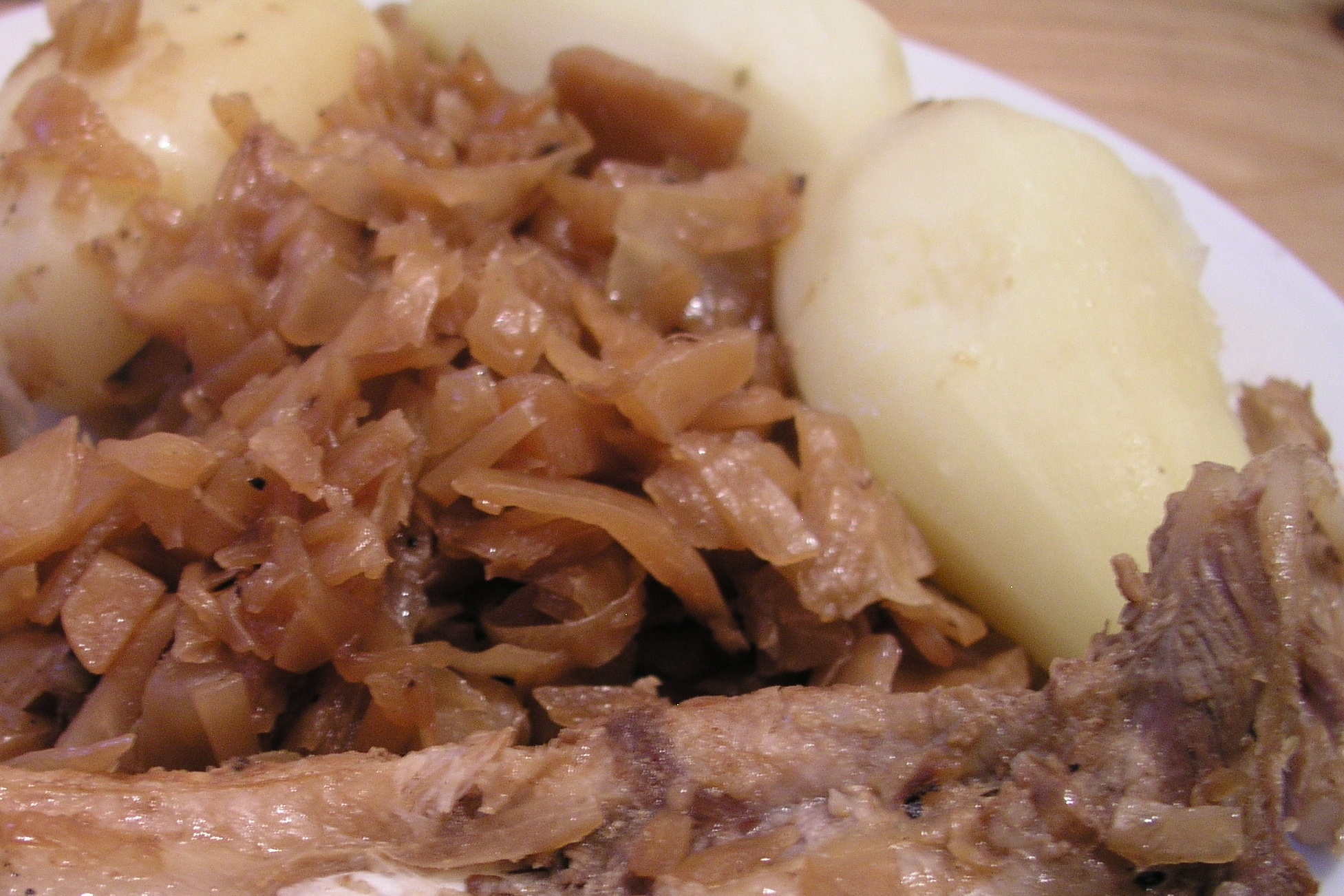 Brunkål - lit. browned cabbage. Danish dish.